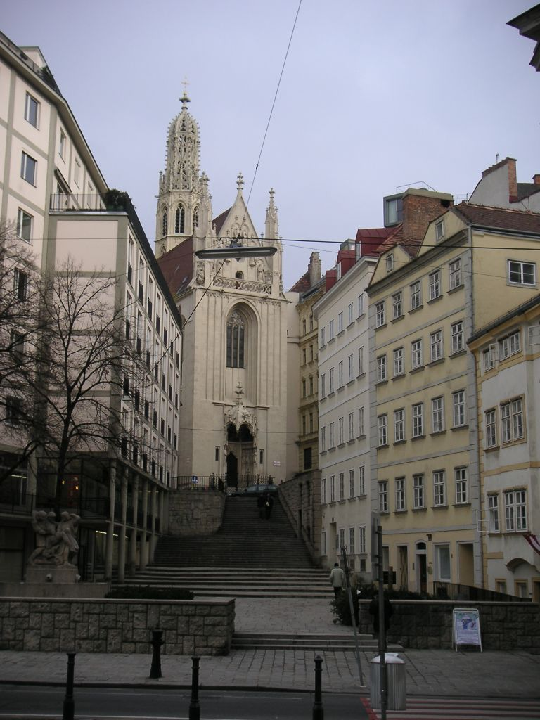 Church Maria am Gestade in Vienna, Austria